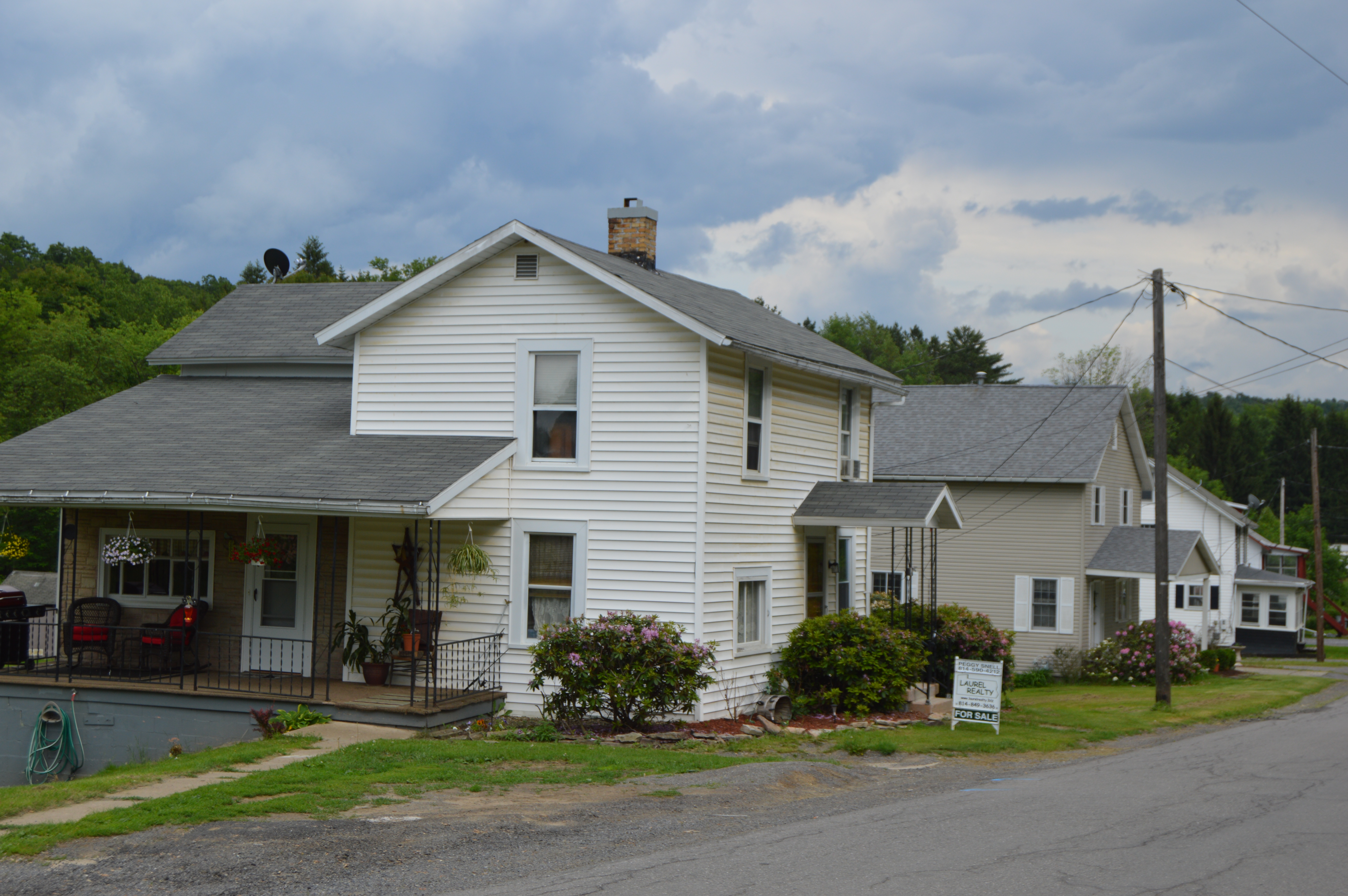 Houses on Belgiumtown Road, immediately south of the Tunnel Hill Road intersection and south of Brookville, in Rose Township, Jefferson County, Pennsylvania, United States.